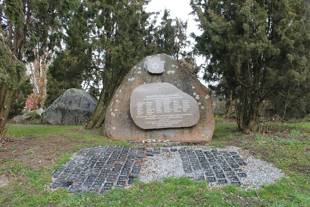 Mosėdis monument to the Jewish community, Skuodas district, LithuaniaLietuvių: Mosėdžio paminklas žydų bendruomenei, Skuodo rajonas, Lietuva